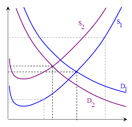 Supply and demand curves showing a reduction in supply and demand.